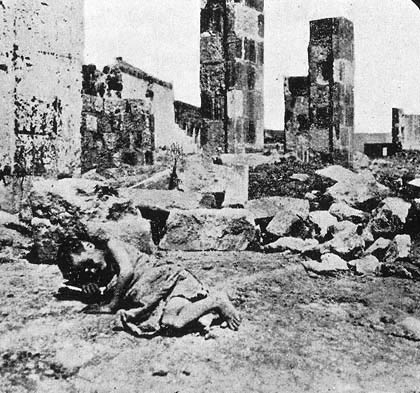 Among the ruins of an Armenian church